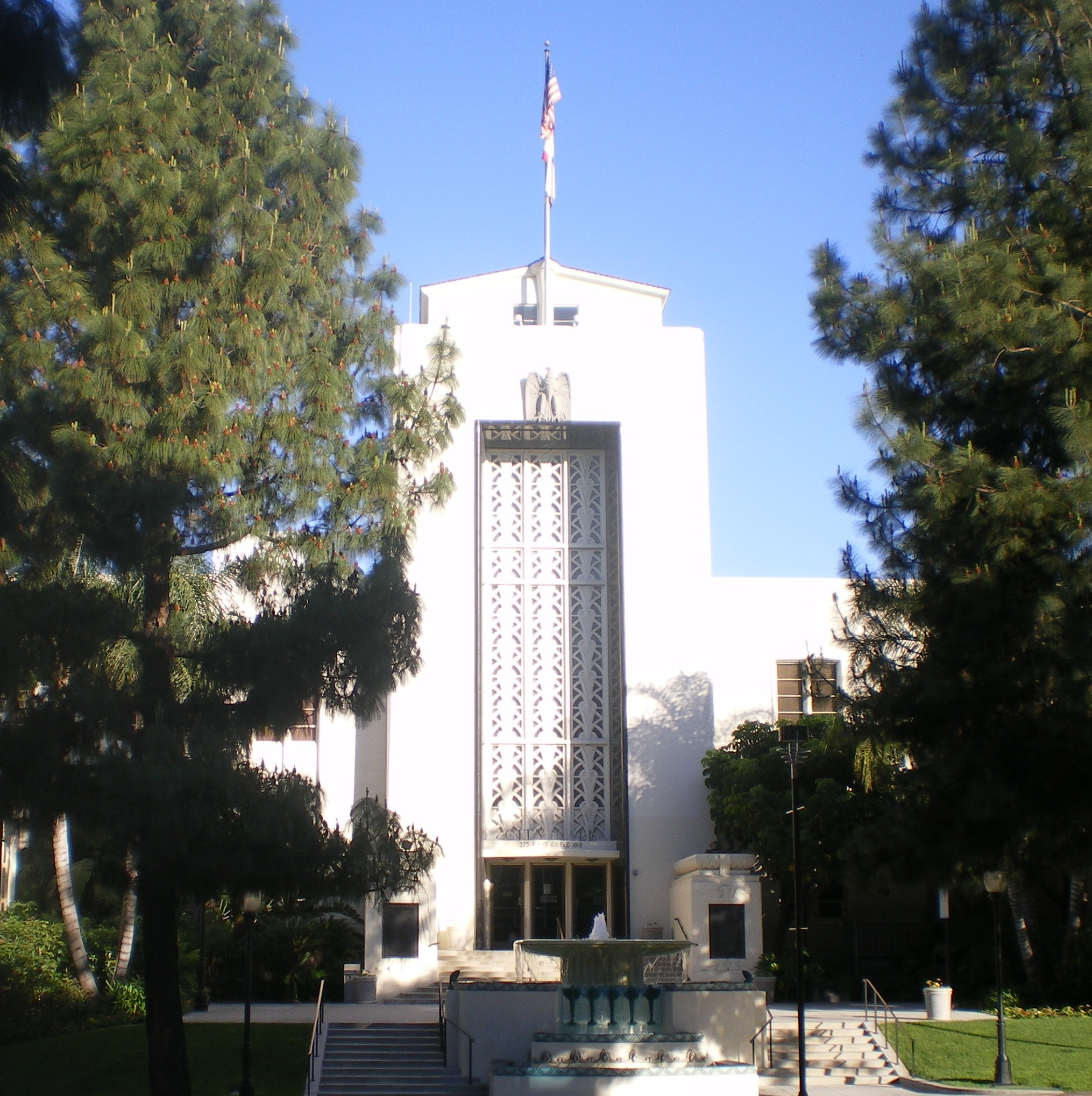 Burbank City Hall, 275 East Olive Ave., Bubank, California